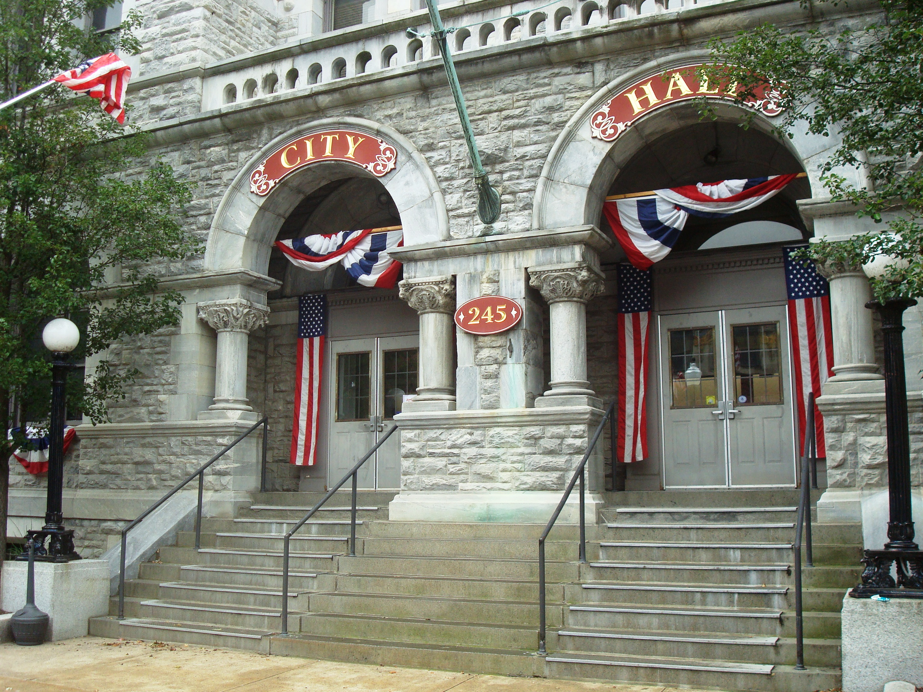 The historic building at 245 West 4th Street between Government Place and West Street in Williamsport, Pennsylvania was built in 1888-91 as a United States Post Office, and was designed by William A. Freret, head of the U.S. Treasury Department's Office of the Supervising Architect. It is now the Williamsport City Hall.